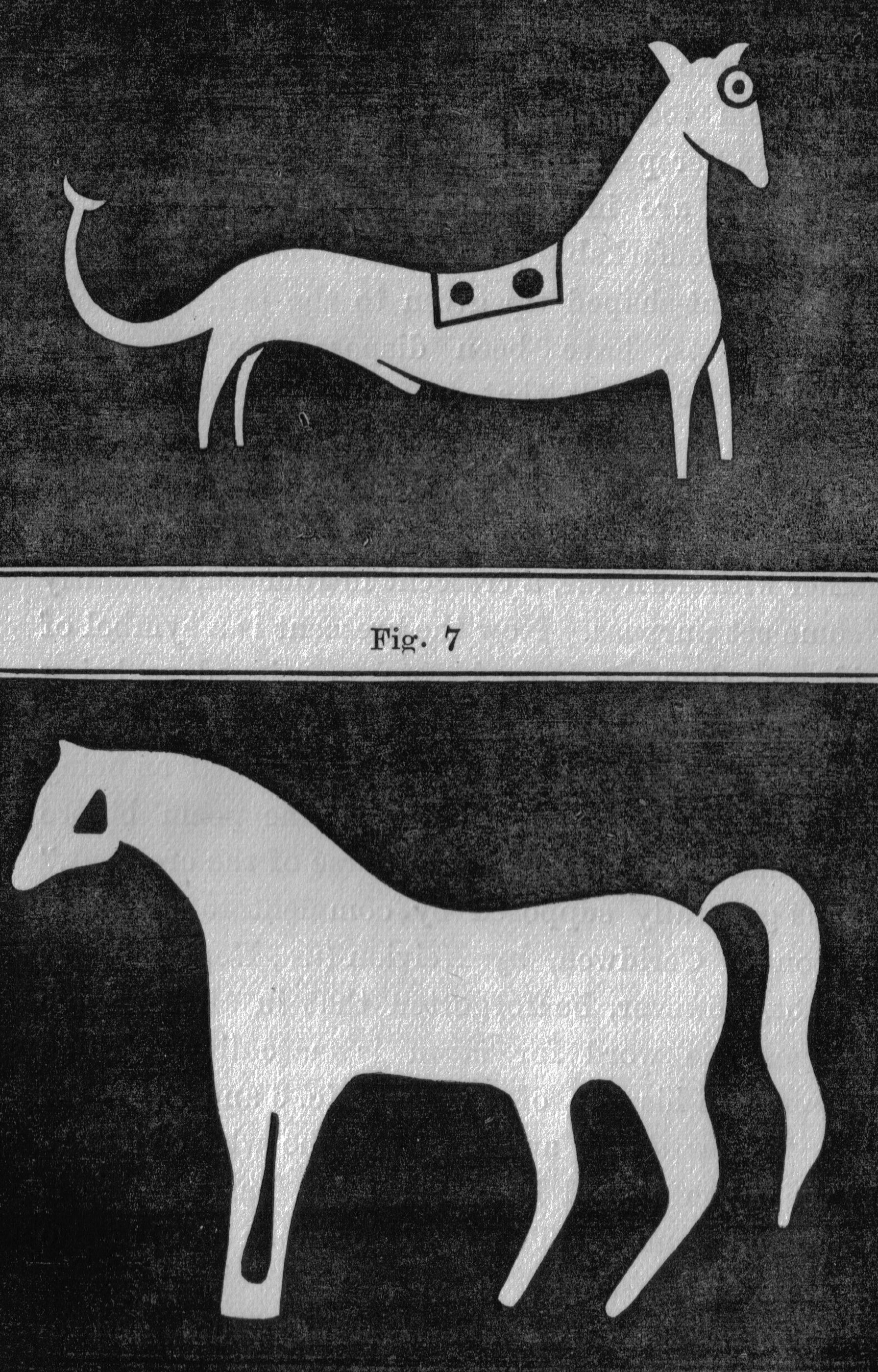 The Westbury or Edington White Horses